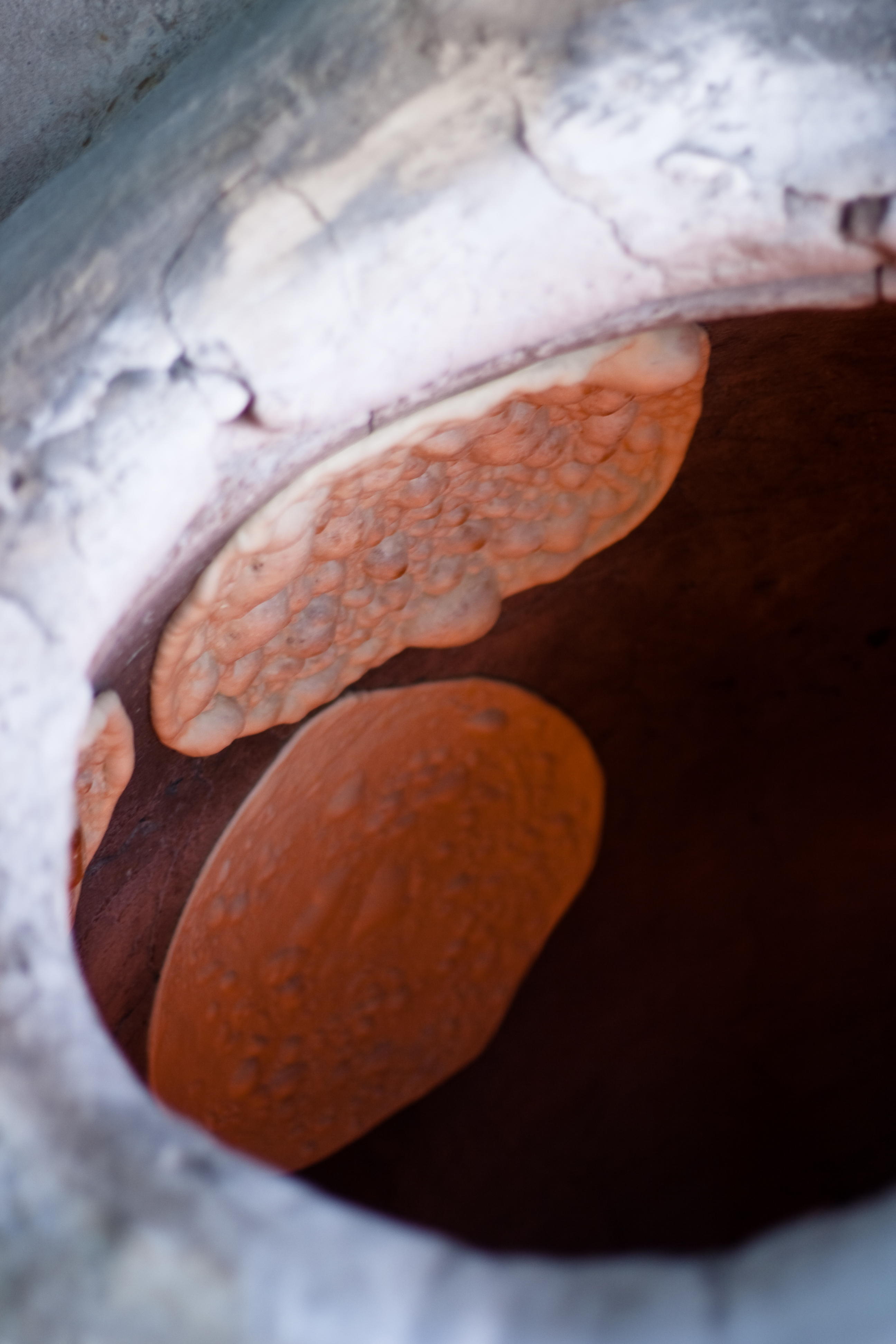 In a tandoori oven, or tanour. Photo by Omar Chatriwala